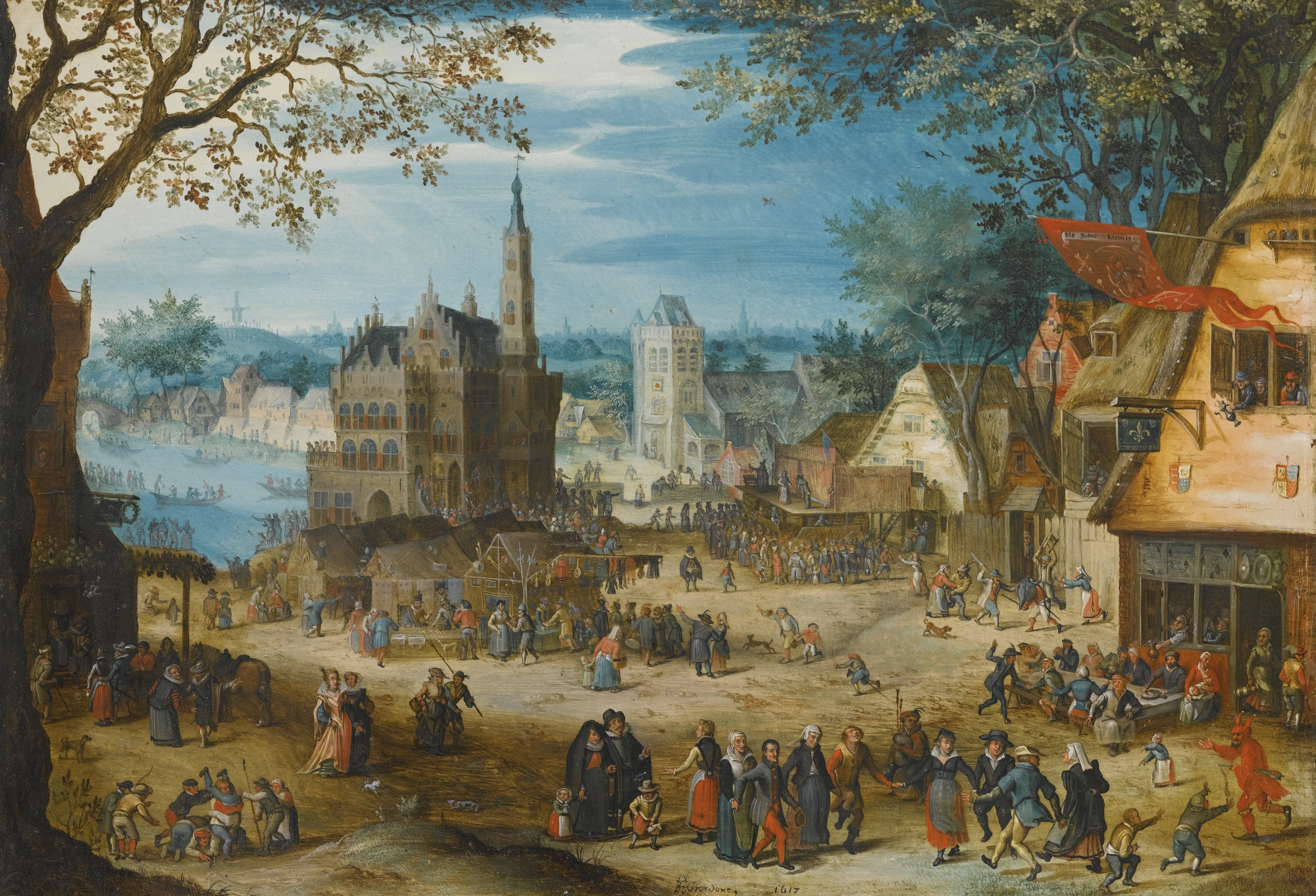 This image is available from the Netherlands Institute for Art Historyunder digital ID 20524. This tag does not indicate the copyright status of the attached work. A normal copyright tag is still required. See Commons:Licensing.